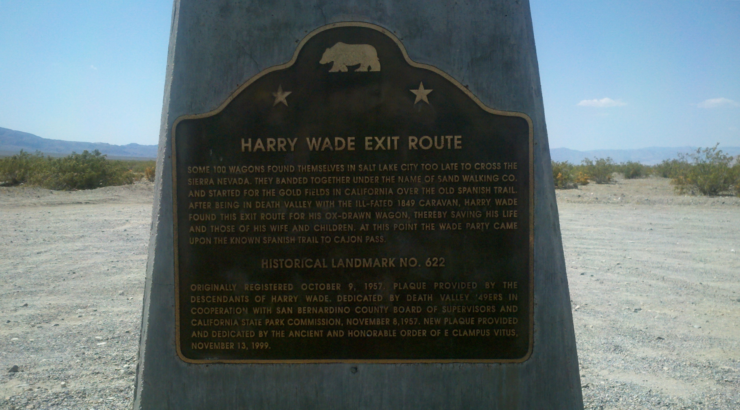 Henry Wade Exit Route